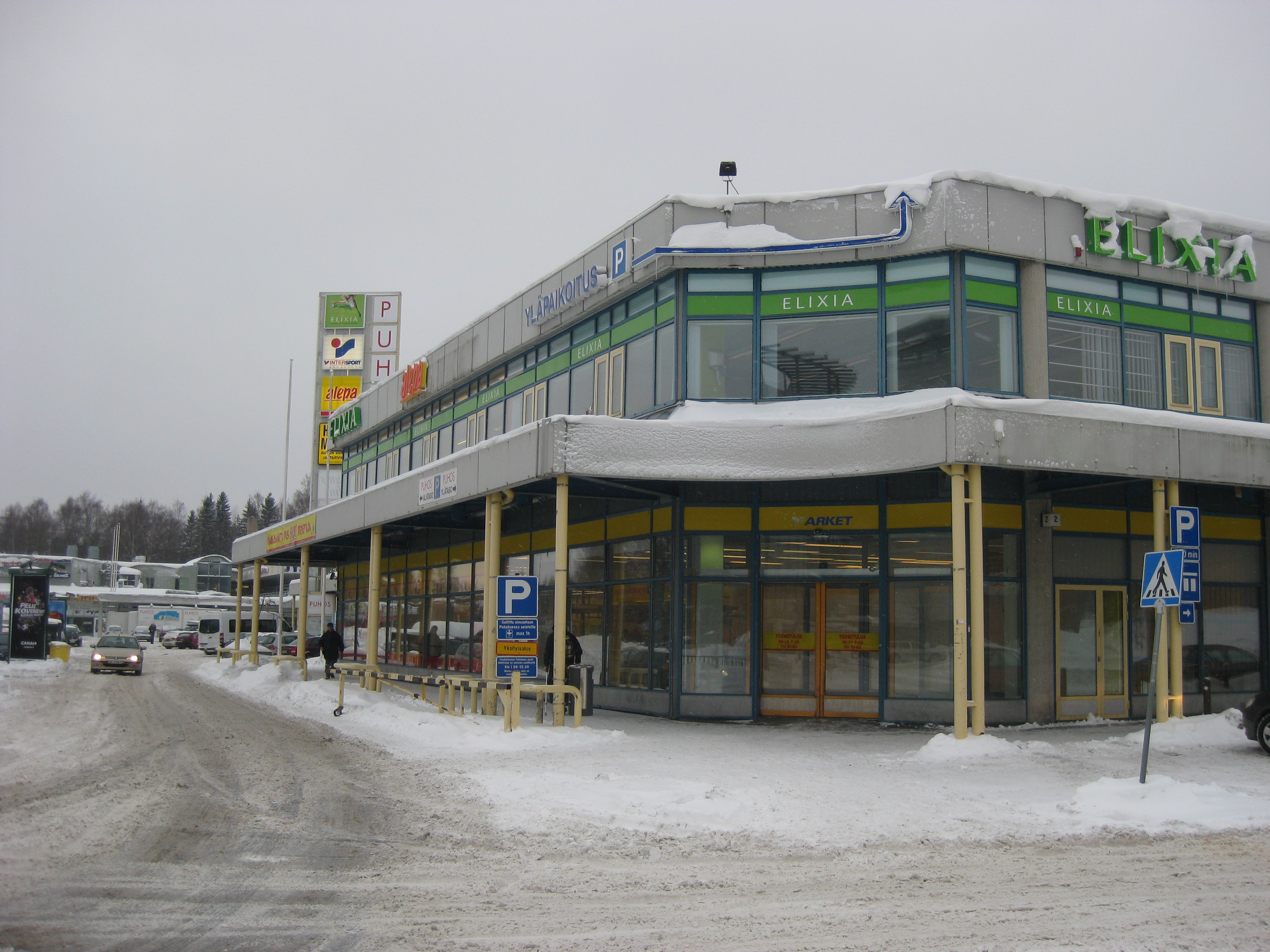 New Alepa market, upper floor Elixia gym in shopping mall Puhos in Itäkeskus, Helsinki